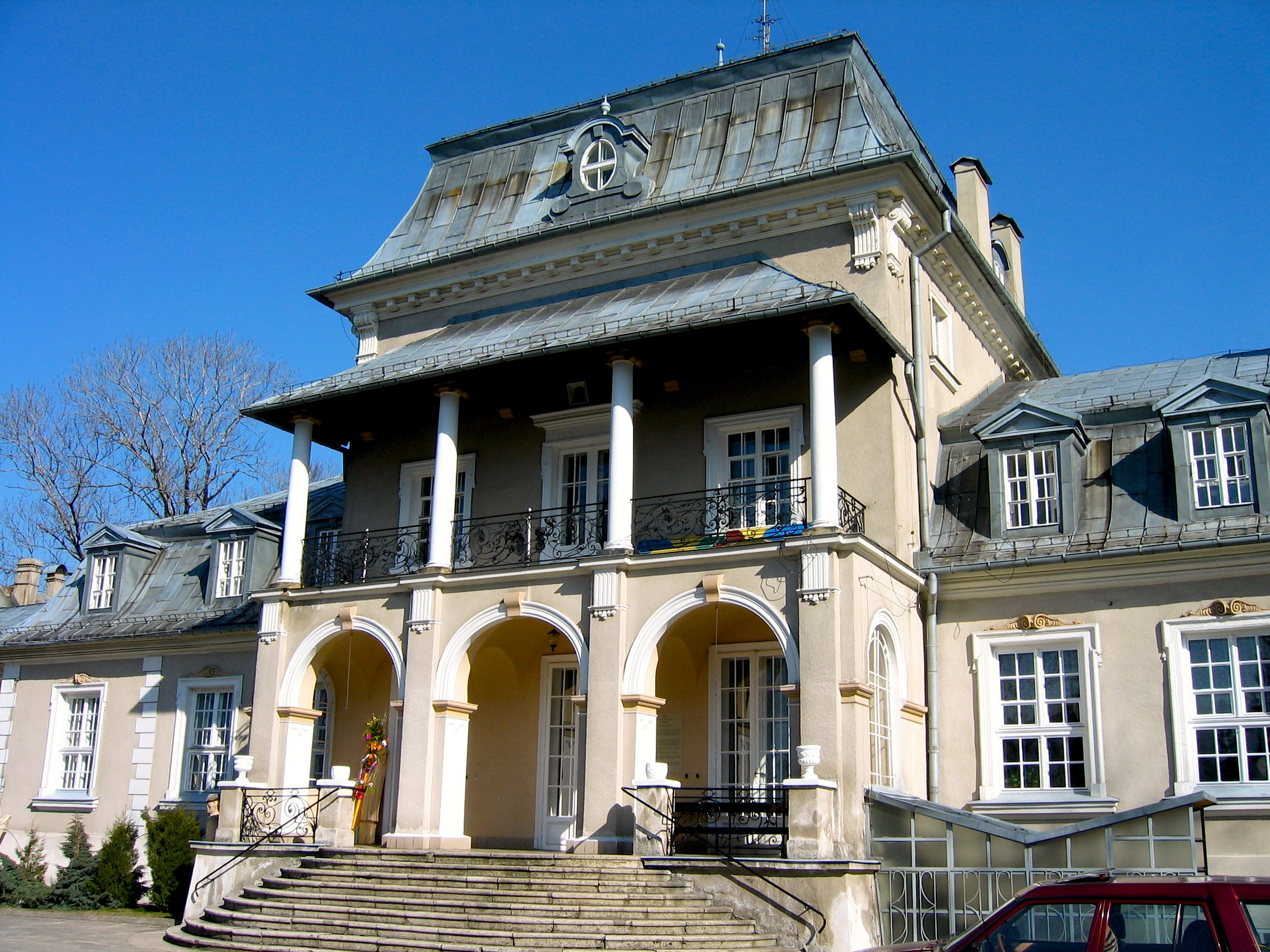 The Starzeński Palace in Płaza near Chrzanów